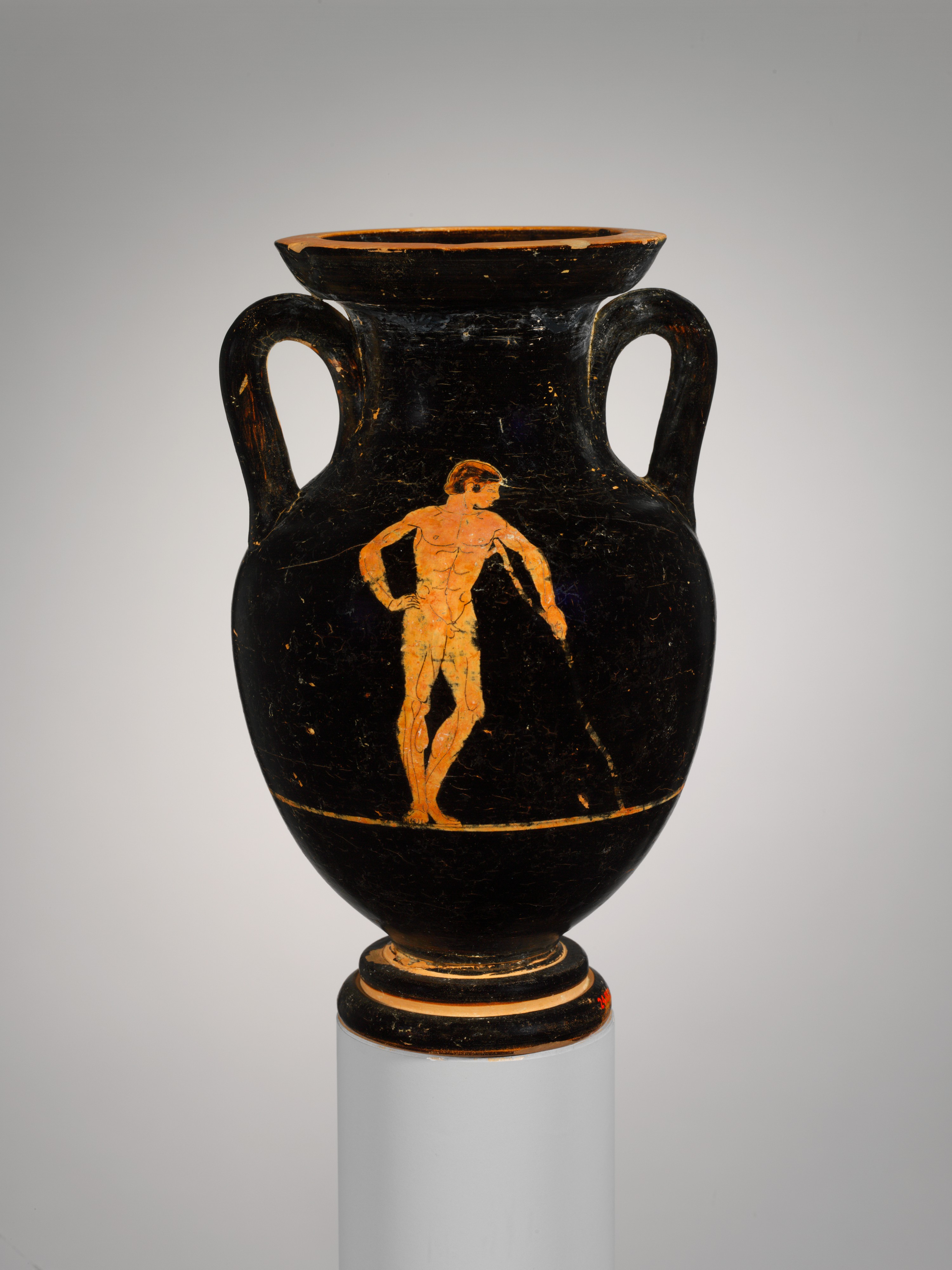 Etruscan; Amphora; Vases